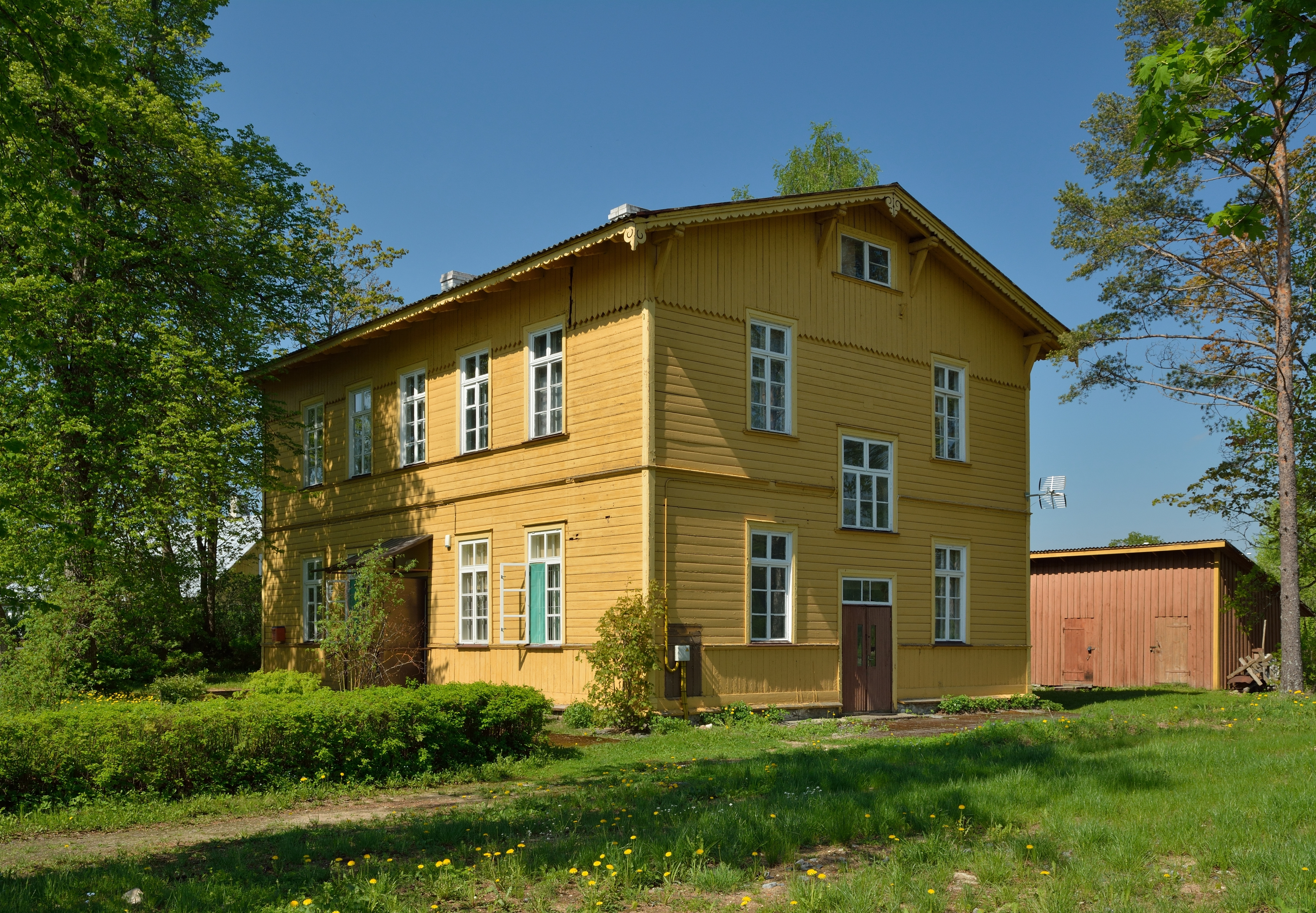 Vägeva station workers house